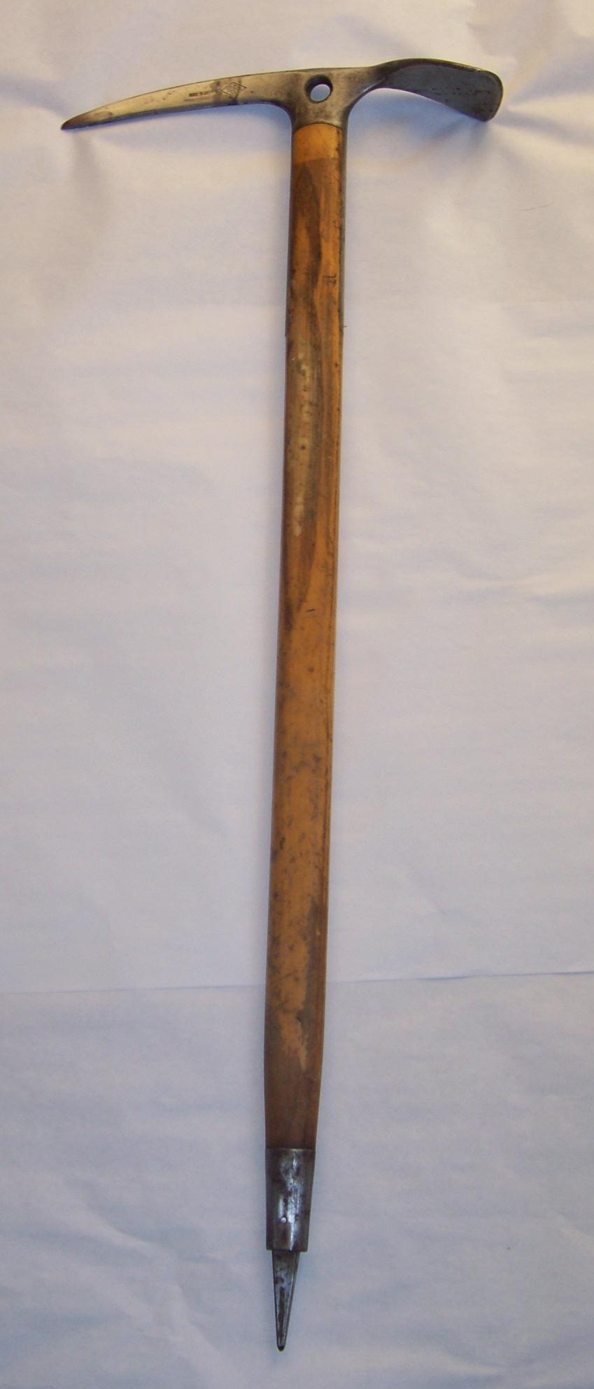 A photo of a Stubai ice axe with a wooden handle, manufactured in Austria in the mid-1970s. It is 29.5" (75 cm) long, and weighs 29.5 oz. (835 grams). It has a wooden handle. Wooden ice axe handles were phased out a few years later.